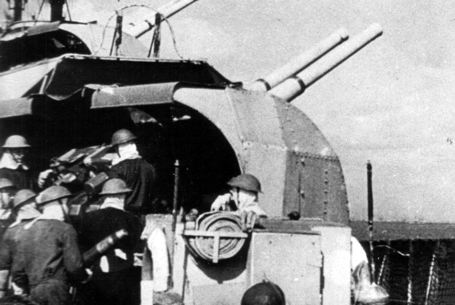 Polish escort destroyer ORP Krakowiak (L115) 4-inch (102 mm) L/45 guns QF Mark XVI.